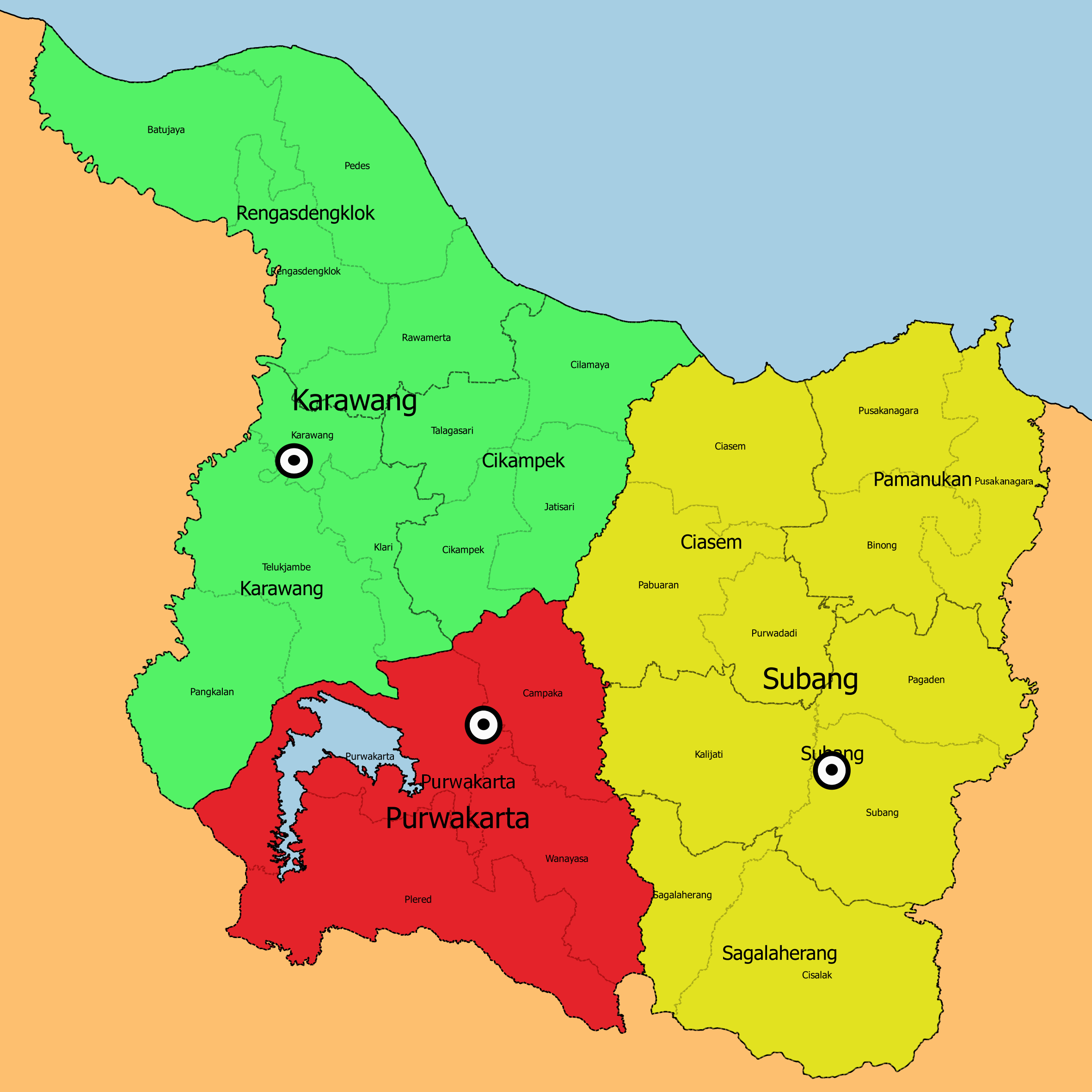 Showed up Purwasuka geocultural region in 1968's Sunda: Nampilkeun wilayah geobudaya Purwasuka dina taun 1968